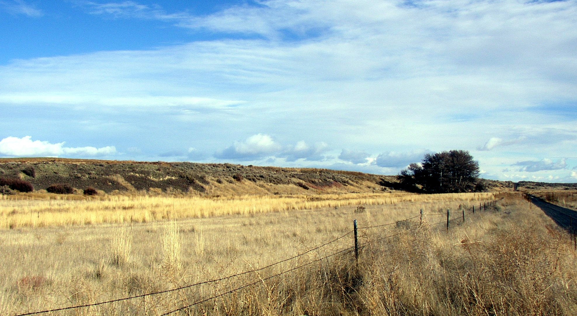 Esker at Sims Corner Eskers and Kames National Natural Landmark. Photo taken in November 2006 by uploader. Williamborg 16:22, 12 November 2006 (UTC)